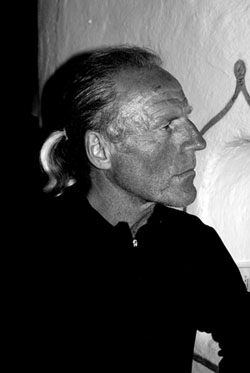 Portrait of the south Tirolean artist Ernst Müller.